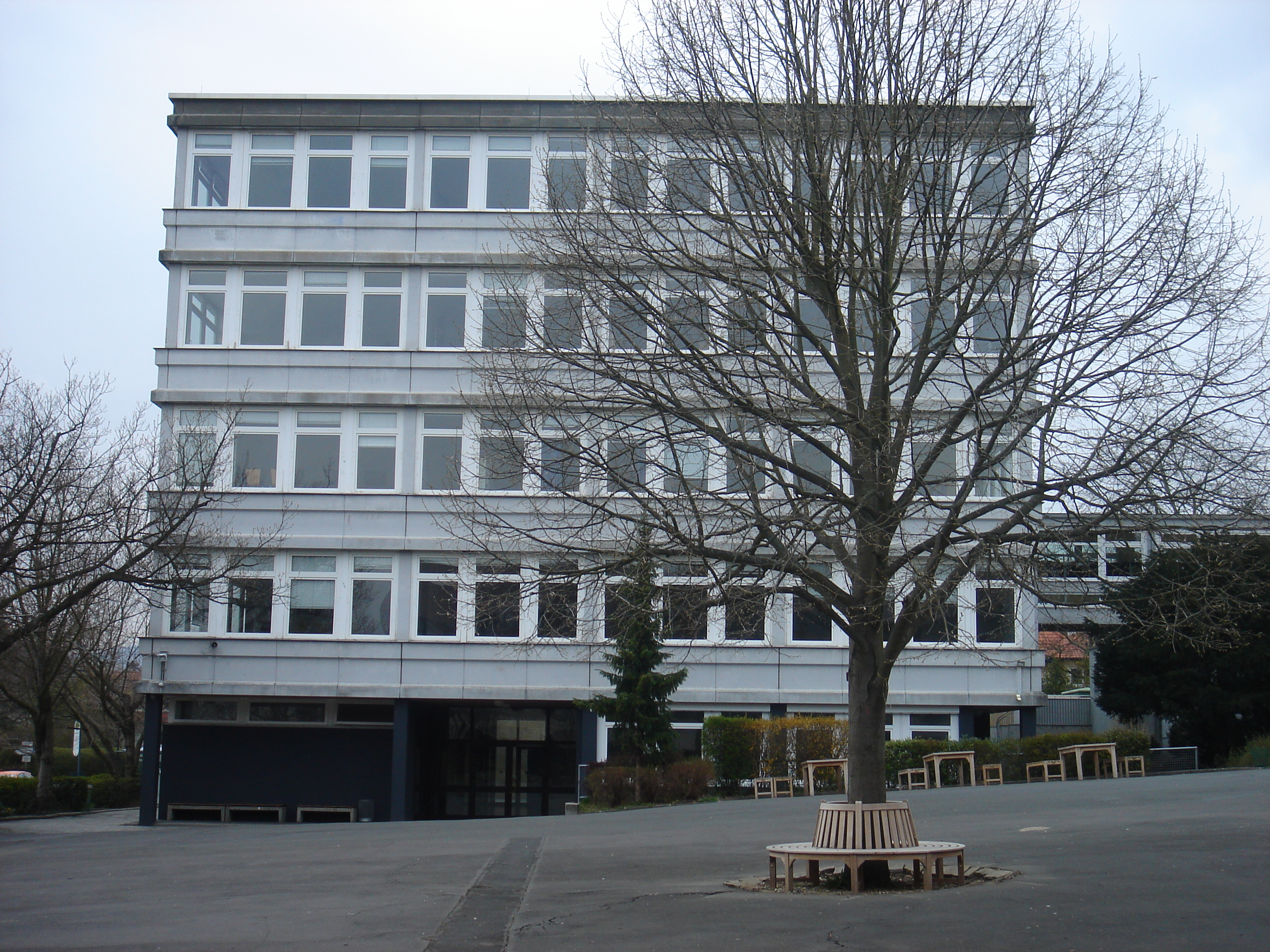 The so-called “tower” of the Kaiserin-Friedrich-Gymnasium, Bad Homburg vor der Höhe, Germany